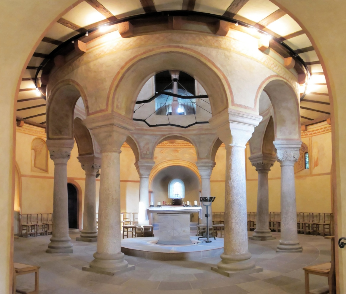 Fulda, Church "Michaelskirche", Inside